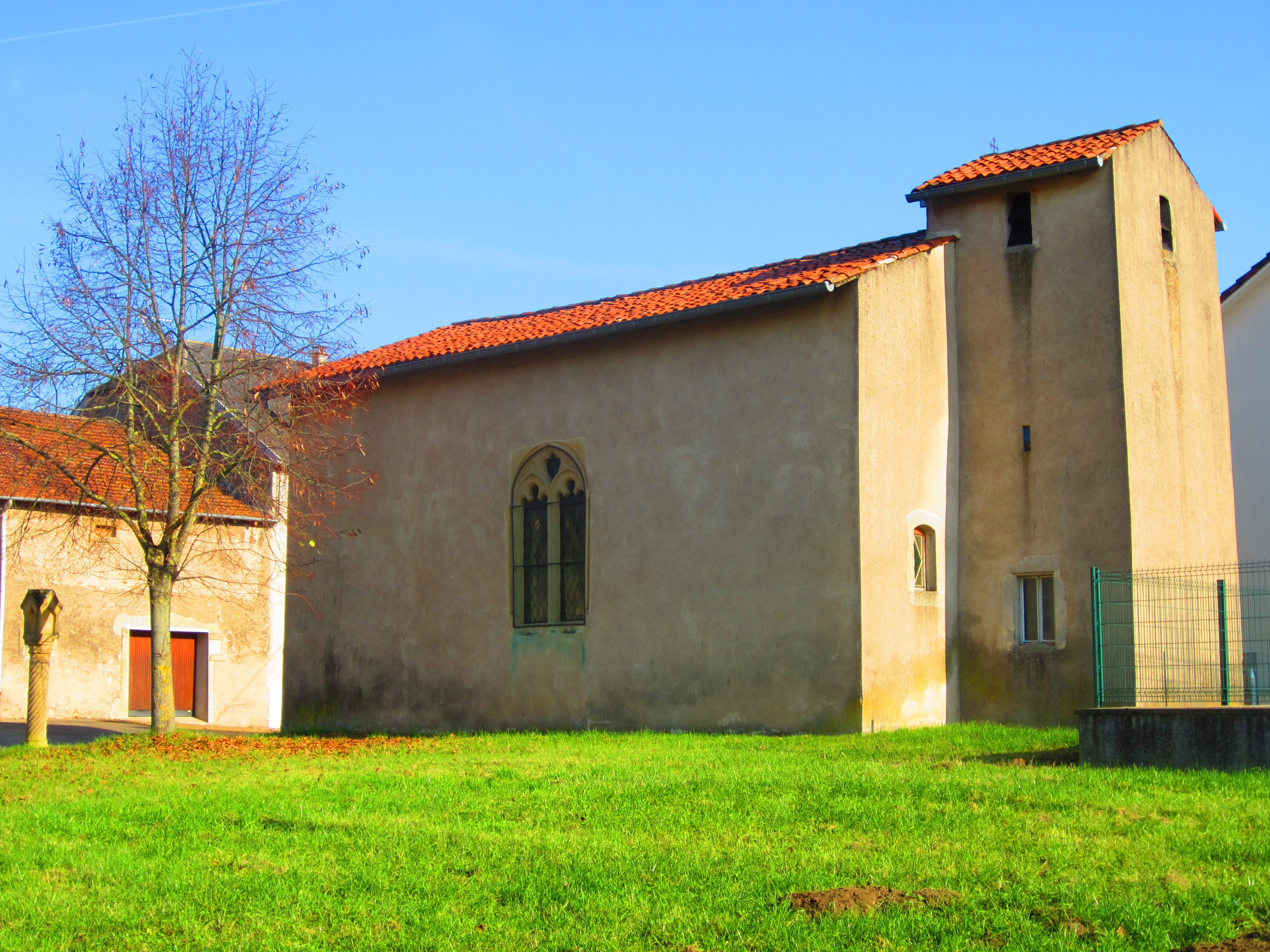 Description chapelle Elange Date21 November 2011Sourcemon appareil photoAuthorAimelaimePermission (Reusing this file) chapelle Elange